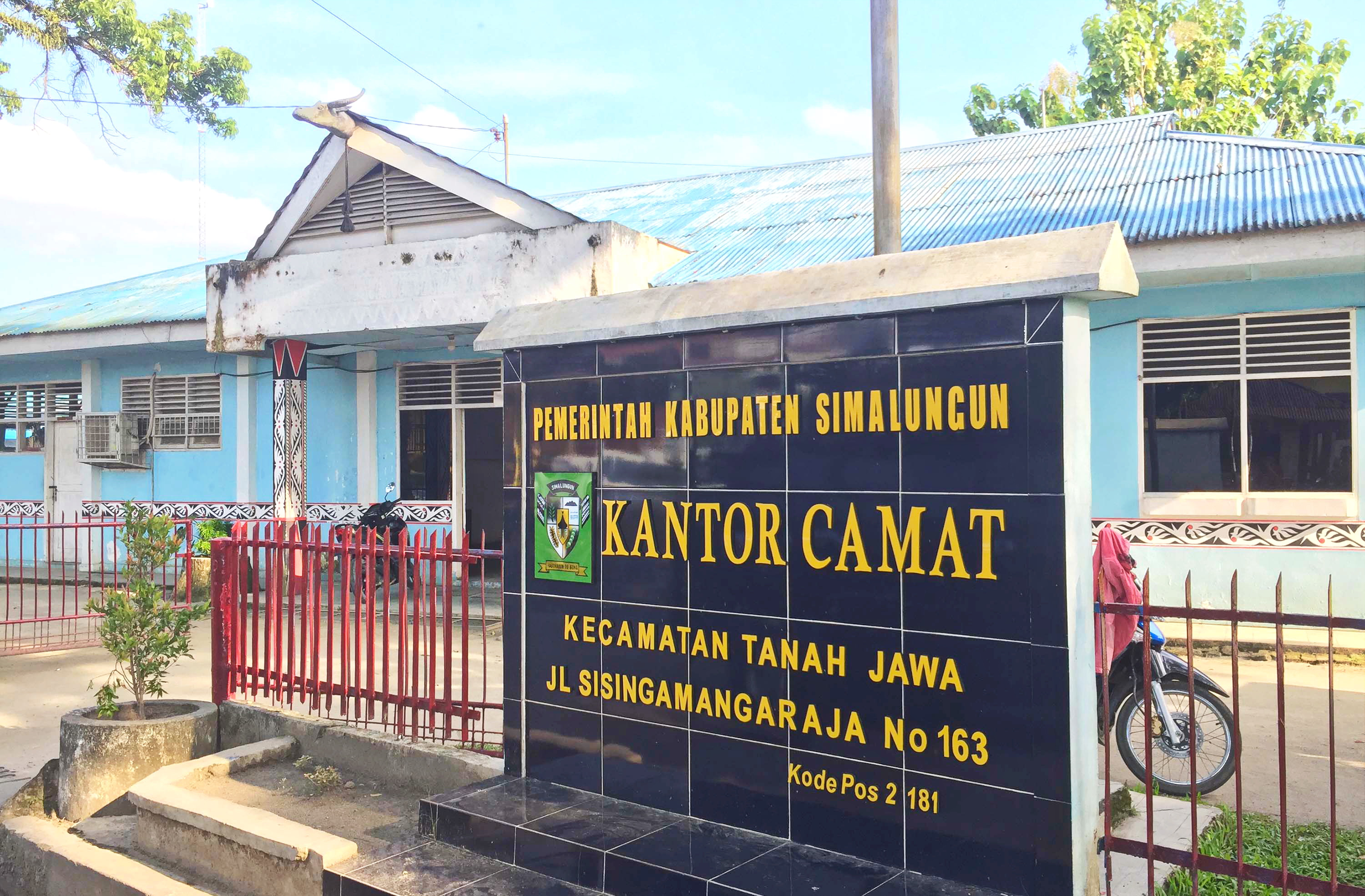 Office district of Tanah Jawa, Simalungun, Indonesia.